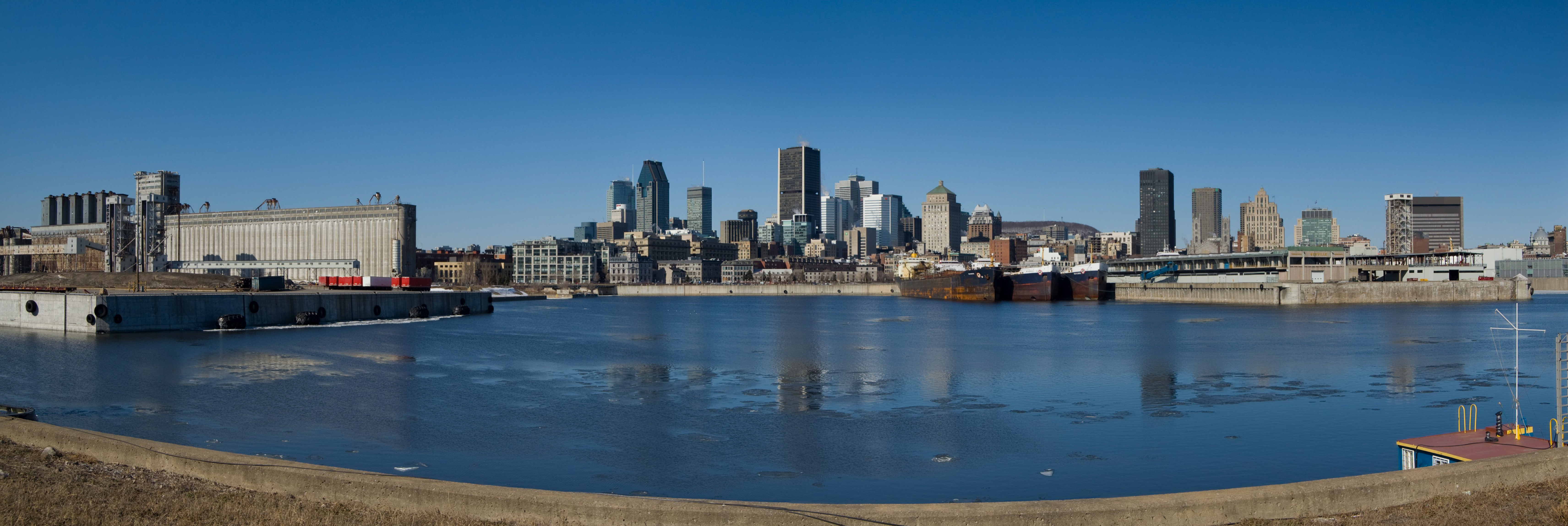 Panorama of Montreal, shot from the peninsula close to Pont de la Concorde. Best viewed large. Created with autostitch.